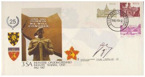 SADF 3 SAI Commemorative Letter